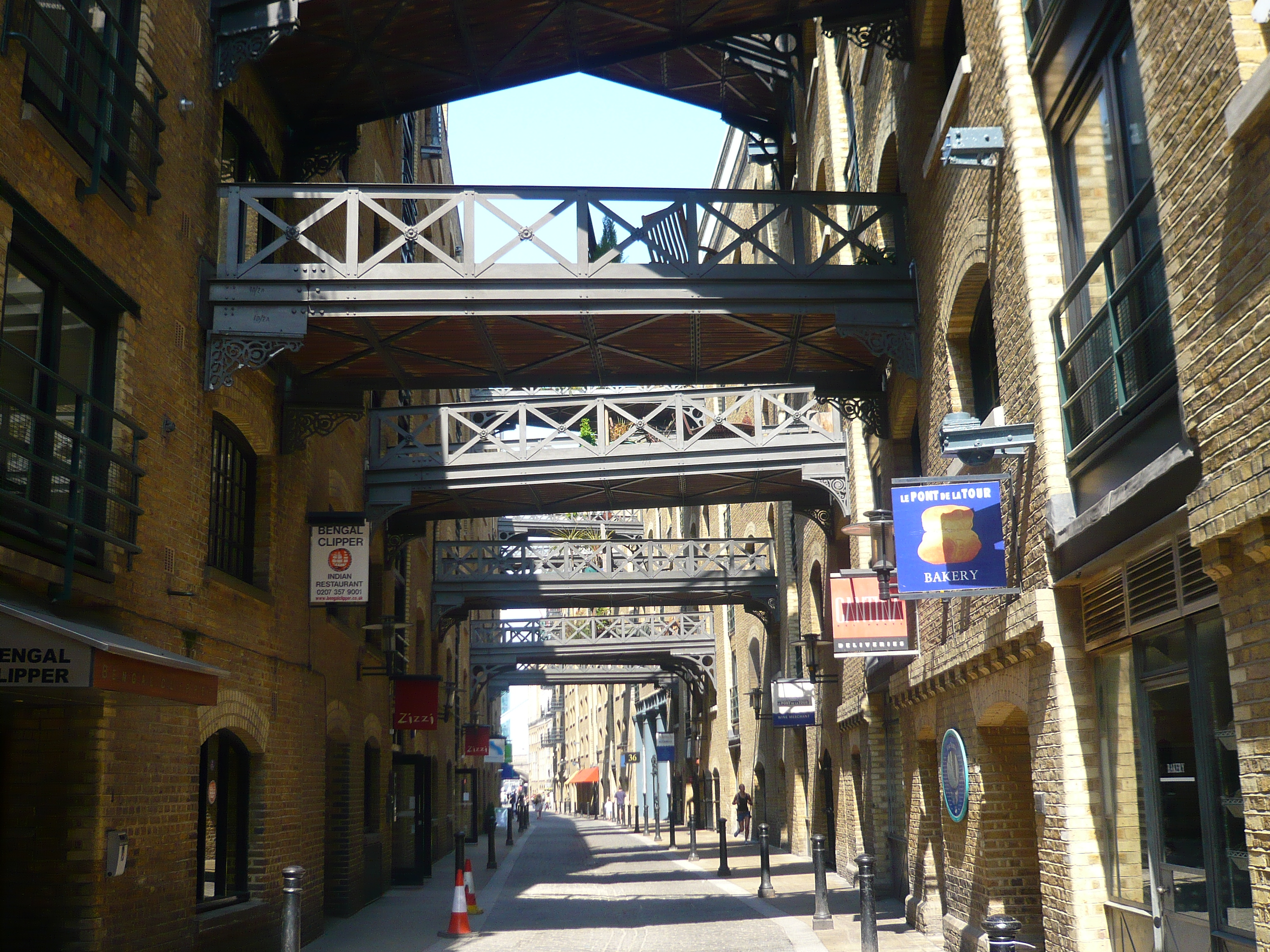 Gangway bridges at Butler's Wharf